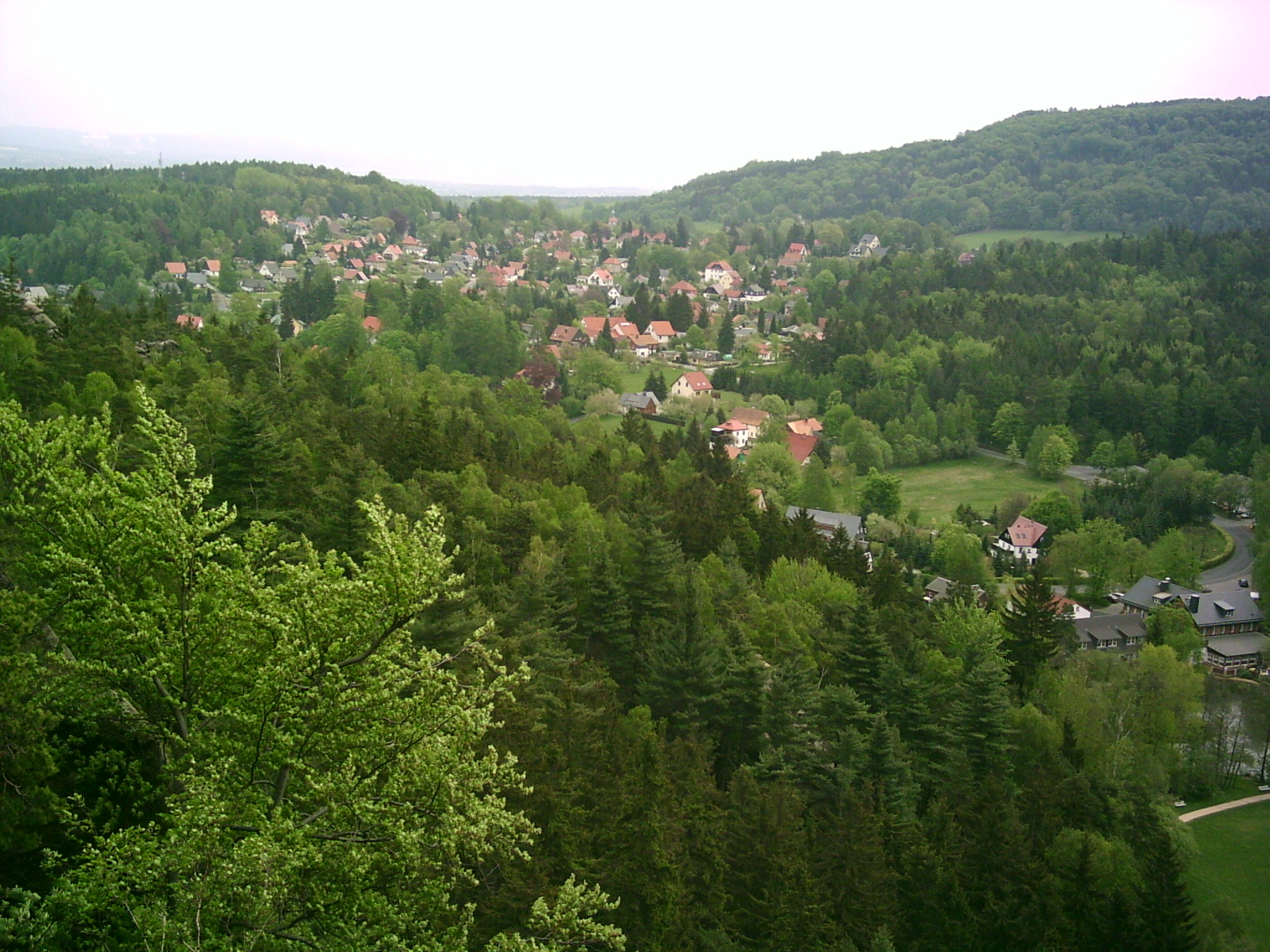 The village Jonsdorf in the Lusatian mountains.